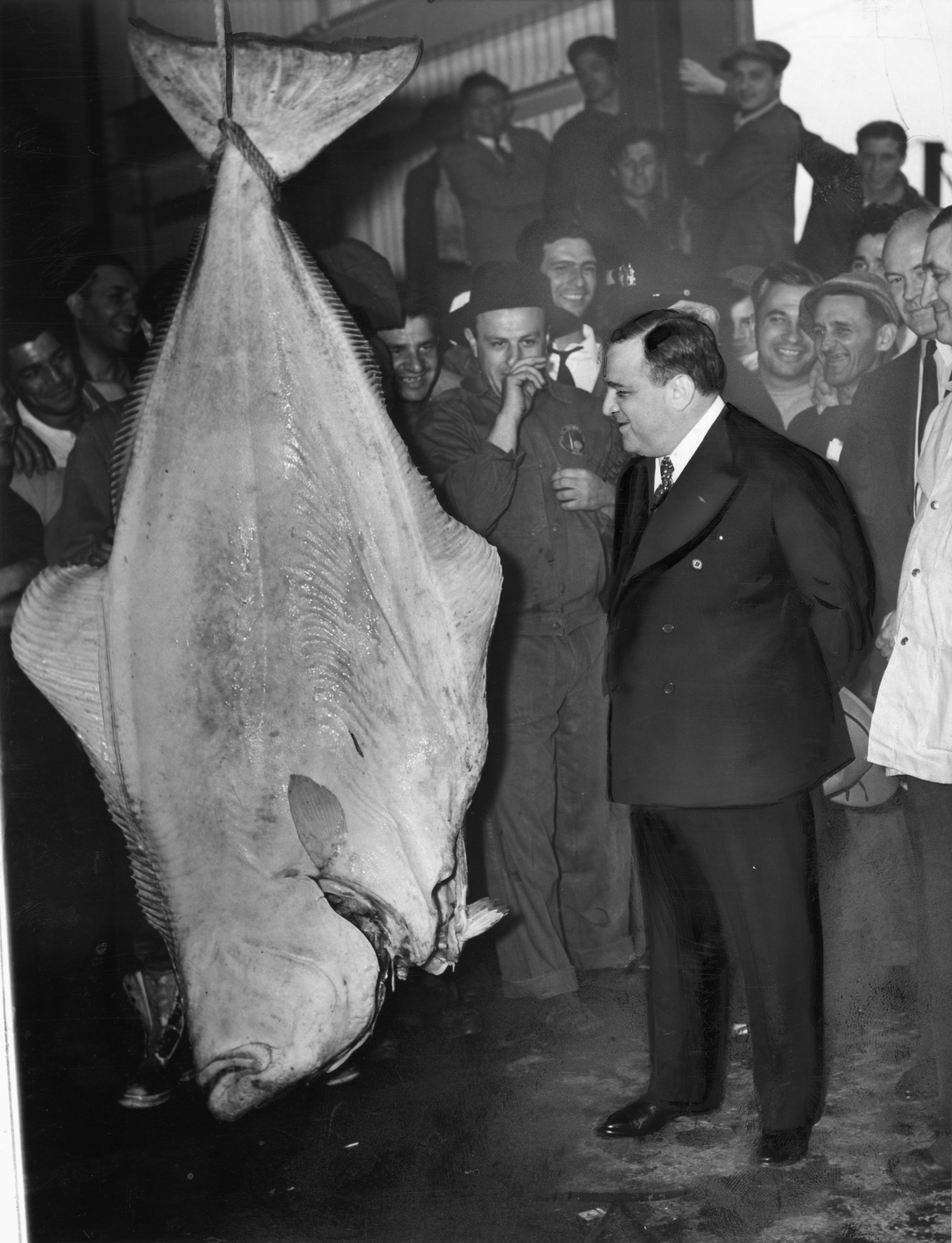 Fiorello H. LaGuardia, mayor of New York City, posing with a 300-pound halibut at the Fulton Fish Market.